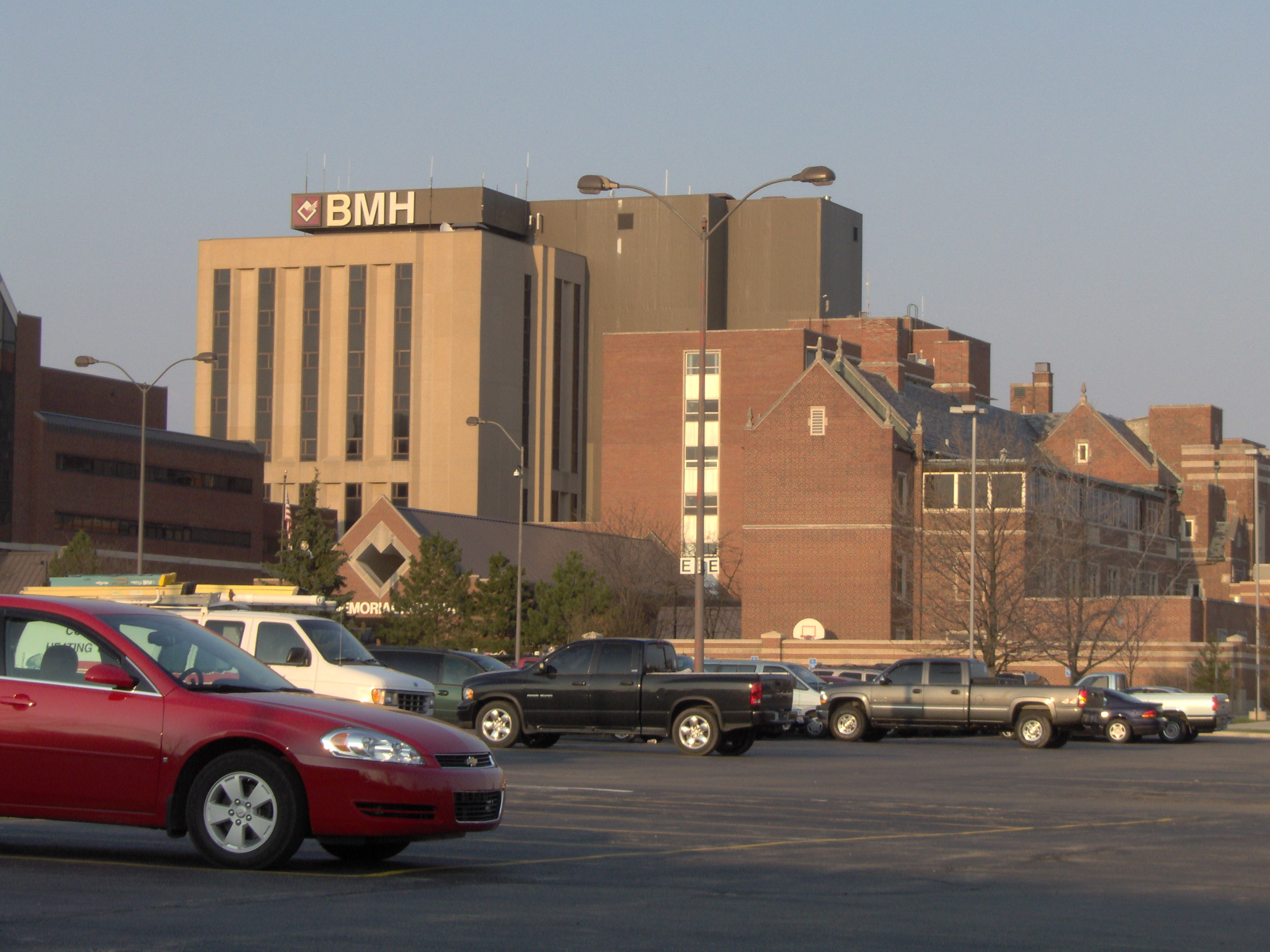 View of Ball Memorial Hospital.